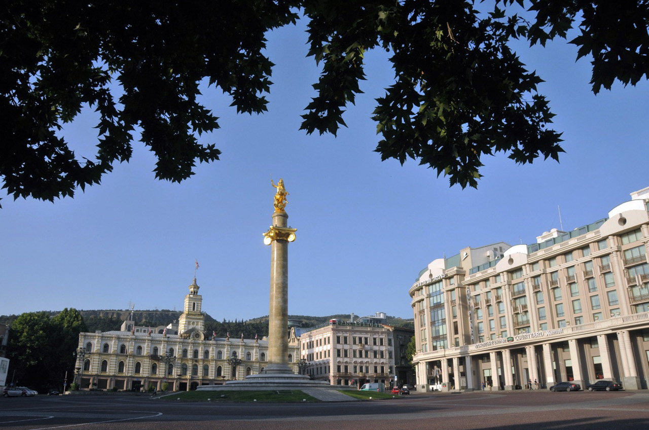 Freedom Square, Tbilisi, Georgia